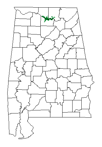 Shade in Wheeler Wildlife Refuge, Alabama